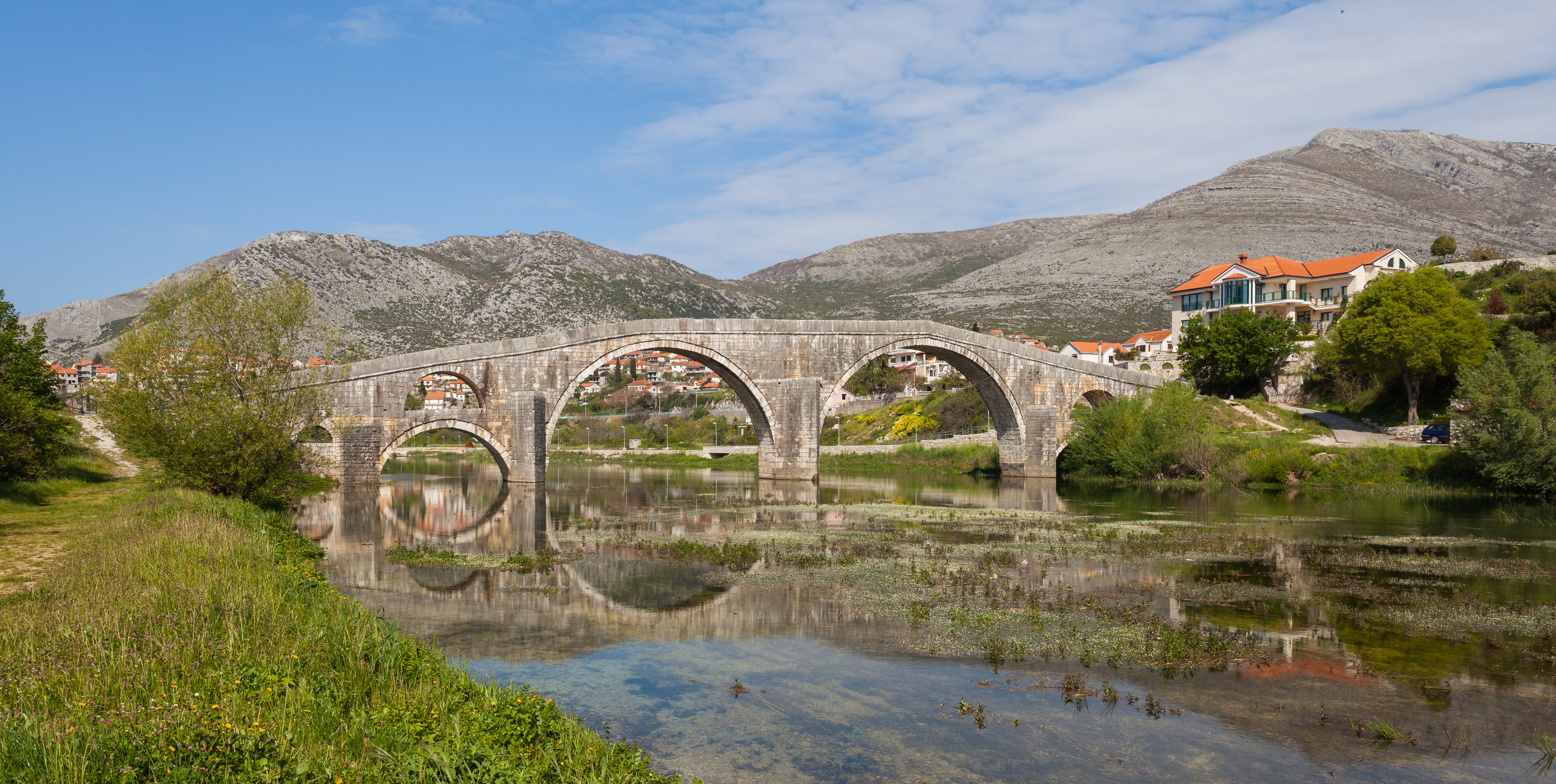 Arslanagić bridge, Trebinje, Bosnia and Herzegovina